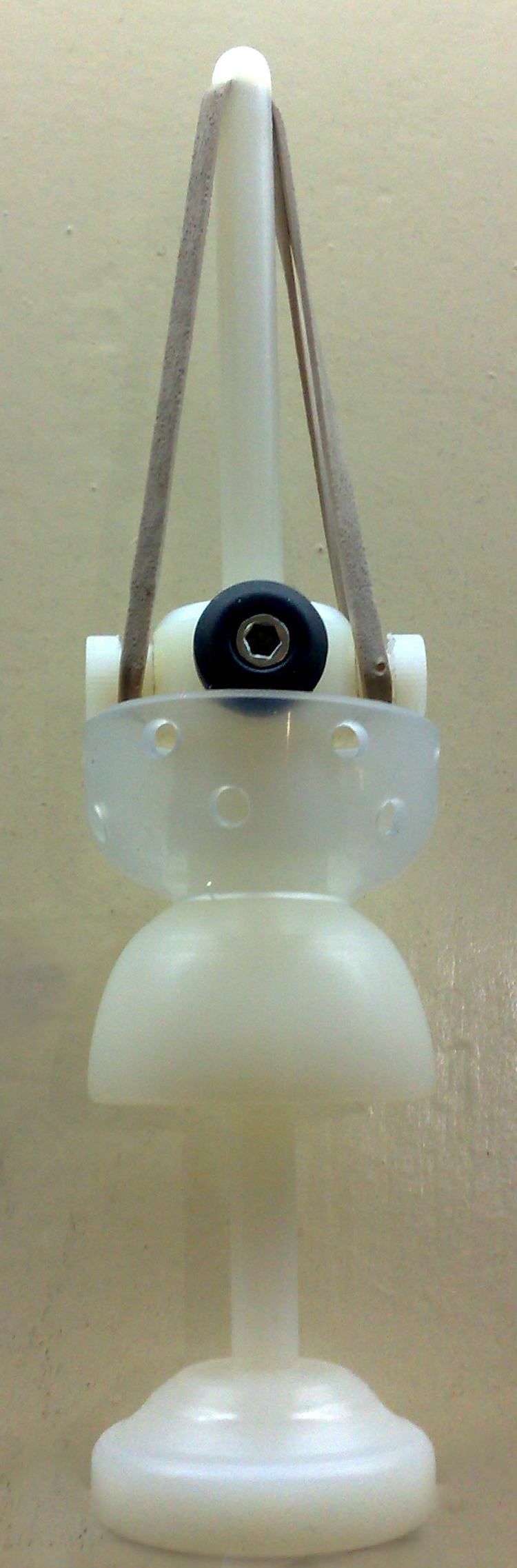 Dual Tension Restorer (DTR)